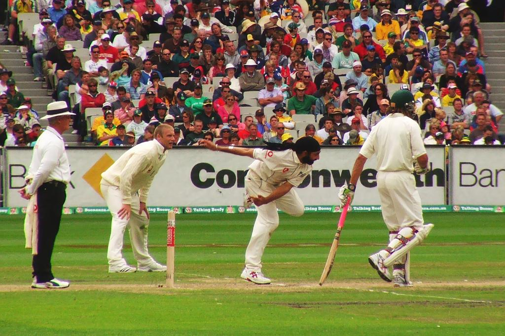 Monty Panesar bowls during the 2006–07 Ashes series as Andrew Flintoff watches.